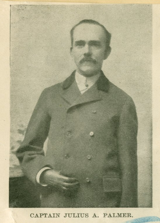 Captain Julius A. Palmer botanist, author and secretary to Queen Liliuokalani